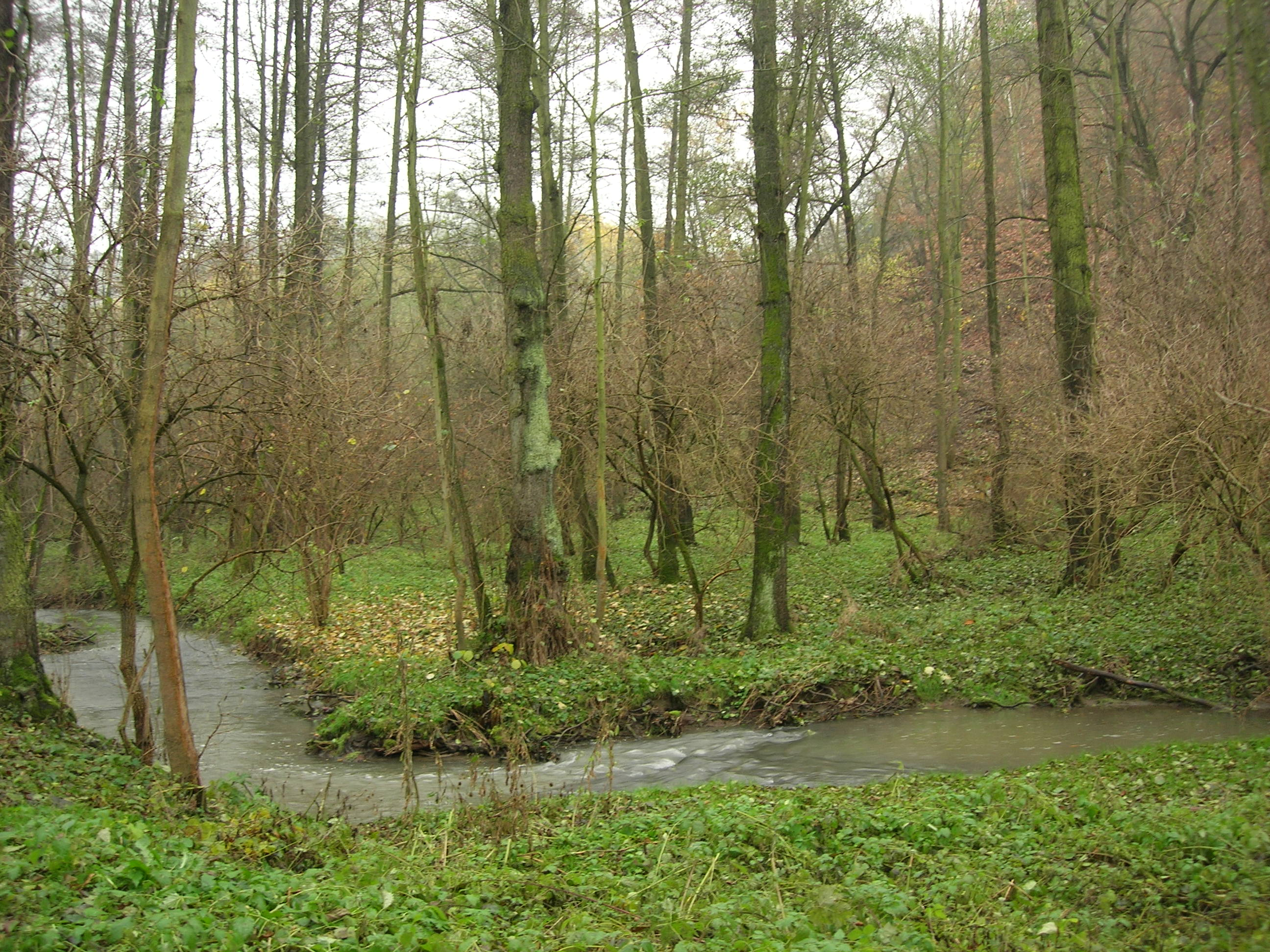 Nature reserve Údolí Únětického potoka near Suchdol, part of Prague, Czech Republic